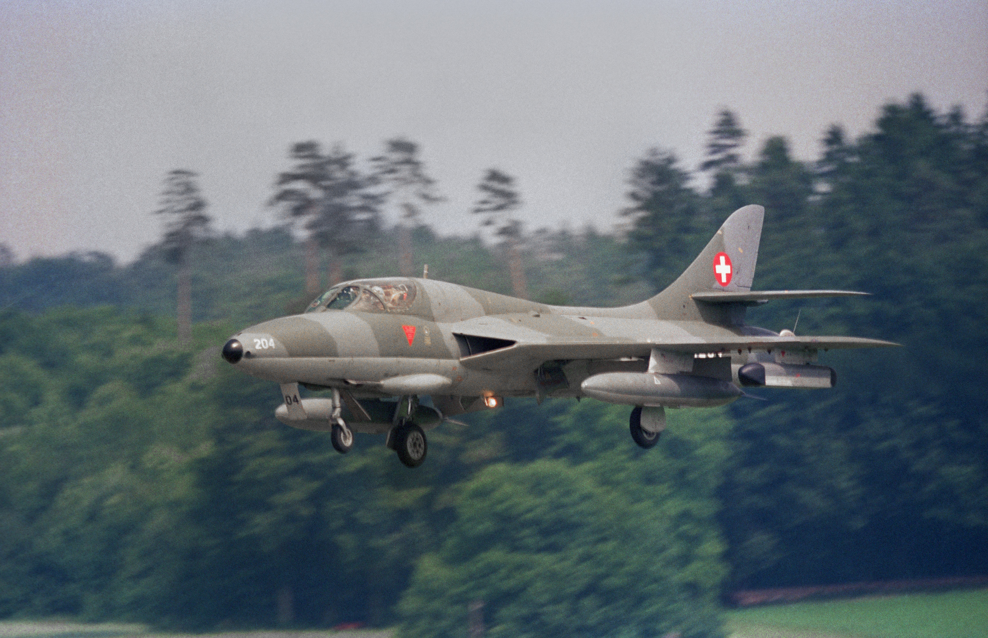 J-4204 landing after an ECM mission